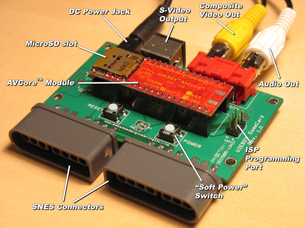 Uzebox open source hardware and software console